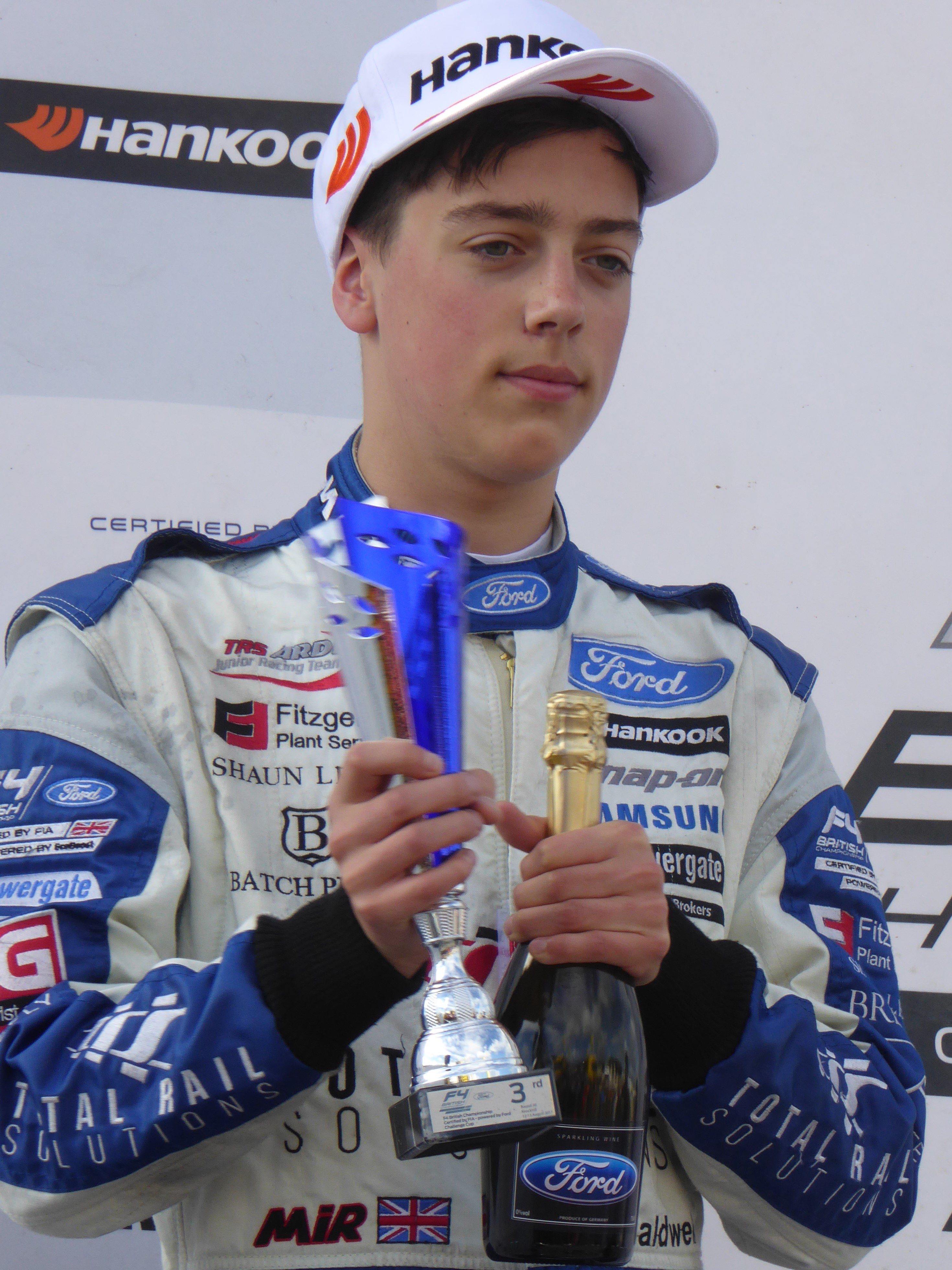 Olli Caldwell (TRS Arden Junior Racing Team), who finished third in Race 3 of the Challenge Cup, at the Knockhill round of the 2017 British F4 Championship.